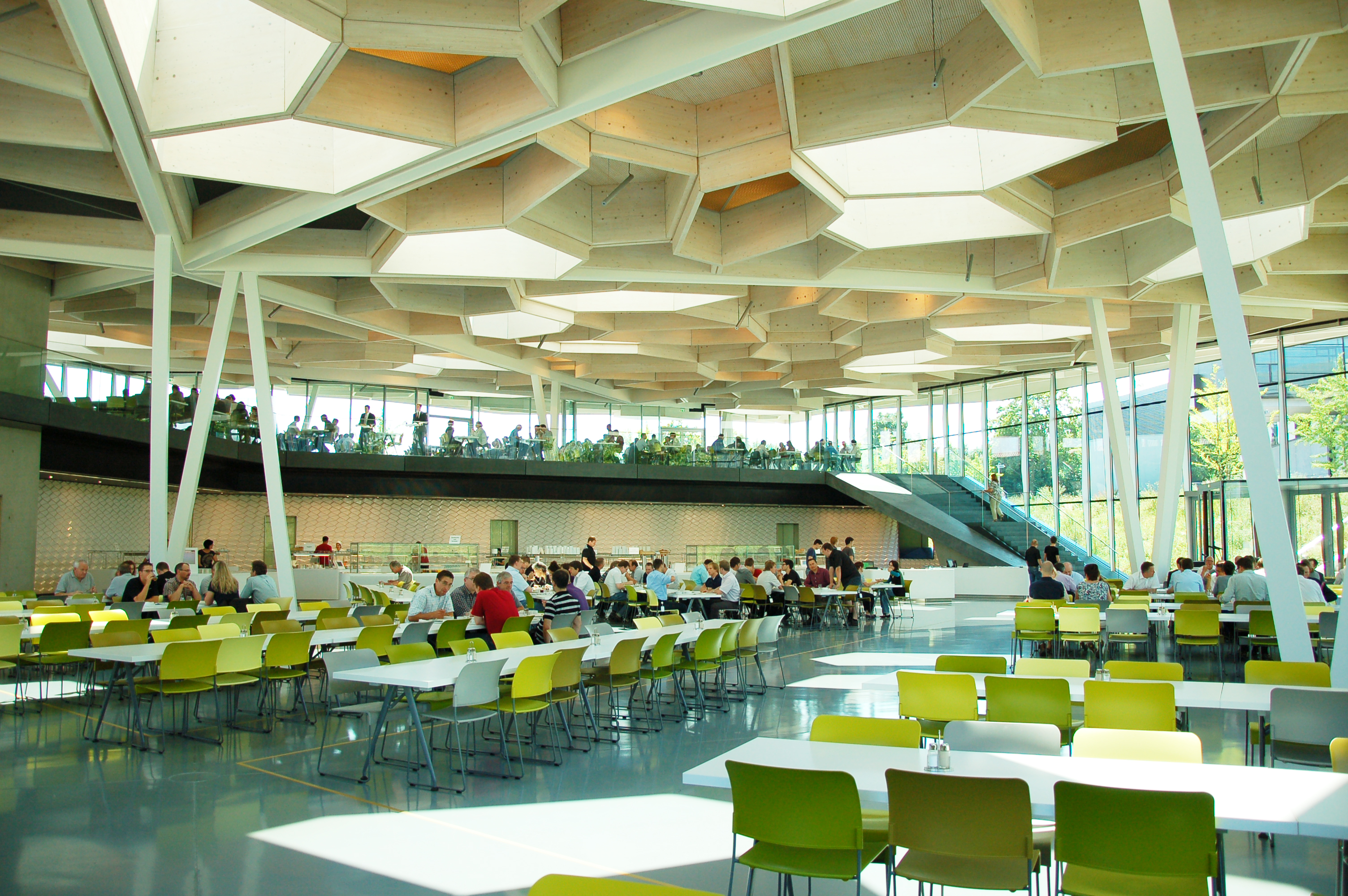 Trumpf Campus Restaurant with Auditorium in Ditzingen / Germany